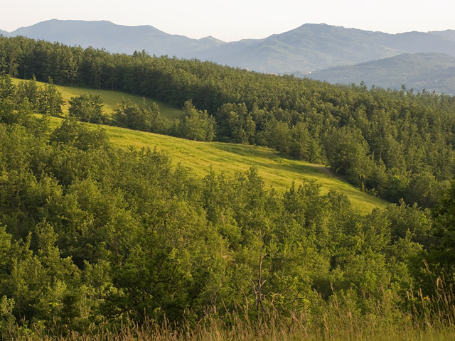 A view of the Ghirardi Nature Reserve, in the territory of Borgo Val di Taro e Albareto towns, Parma province.